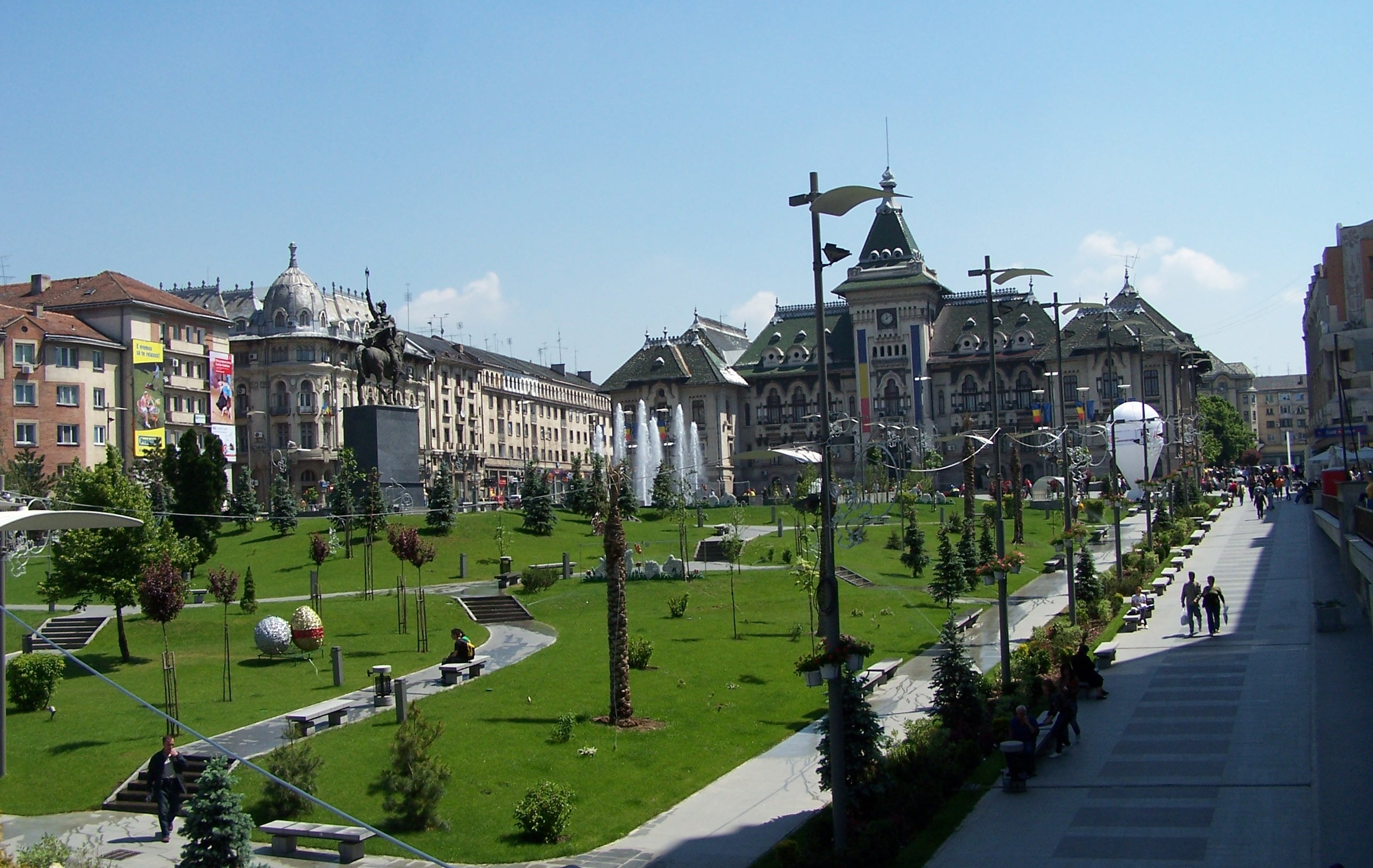 Craiova - Downtown